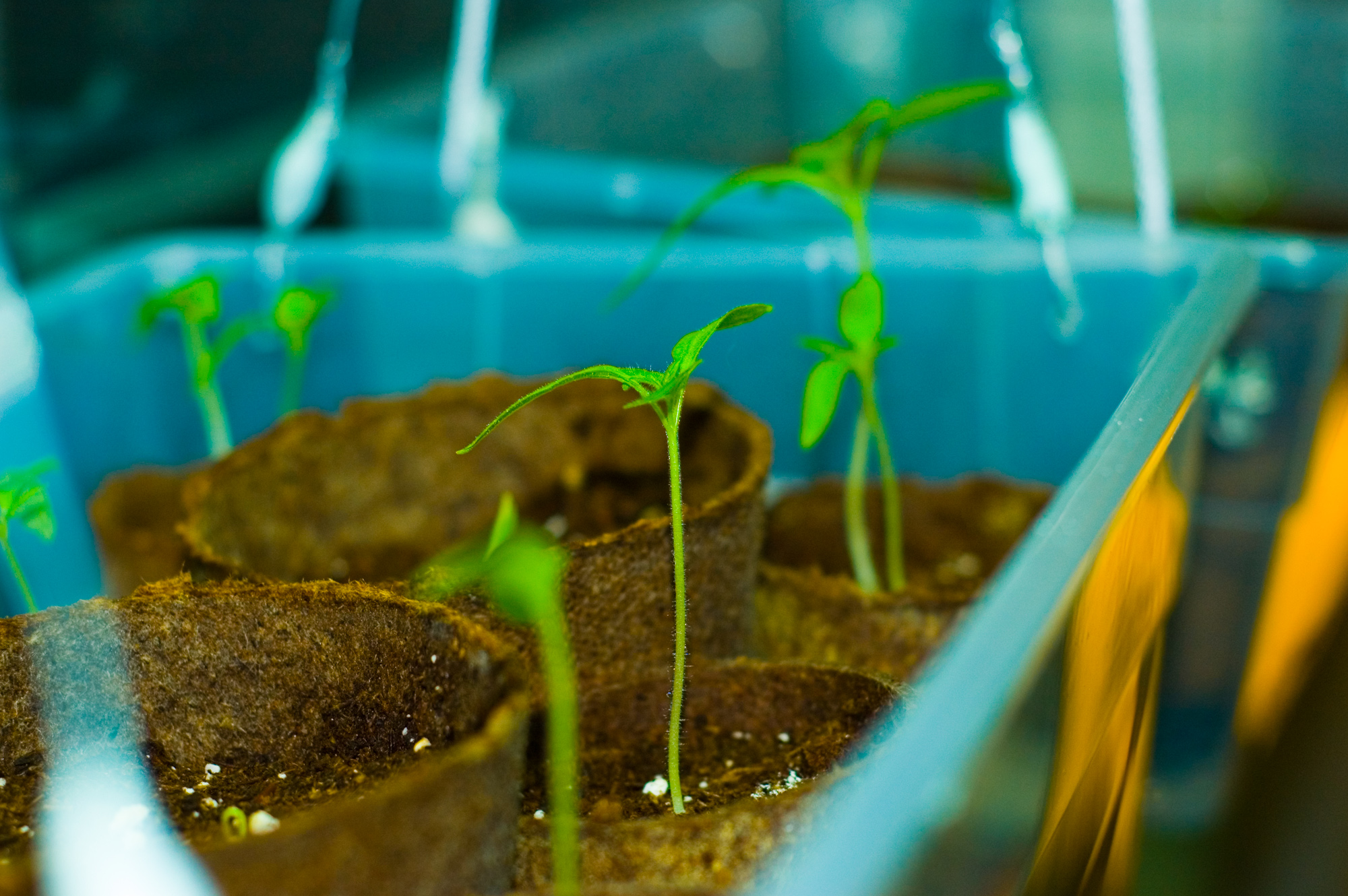 Tomato seedlings growing in peat pots.